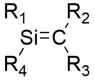 Silene formula